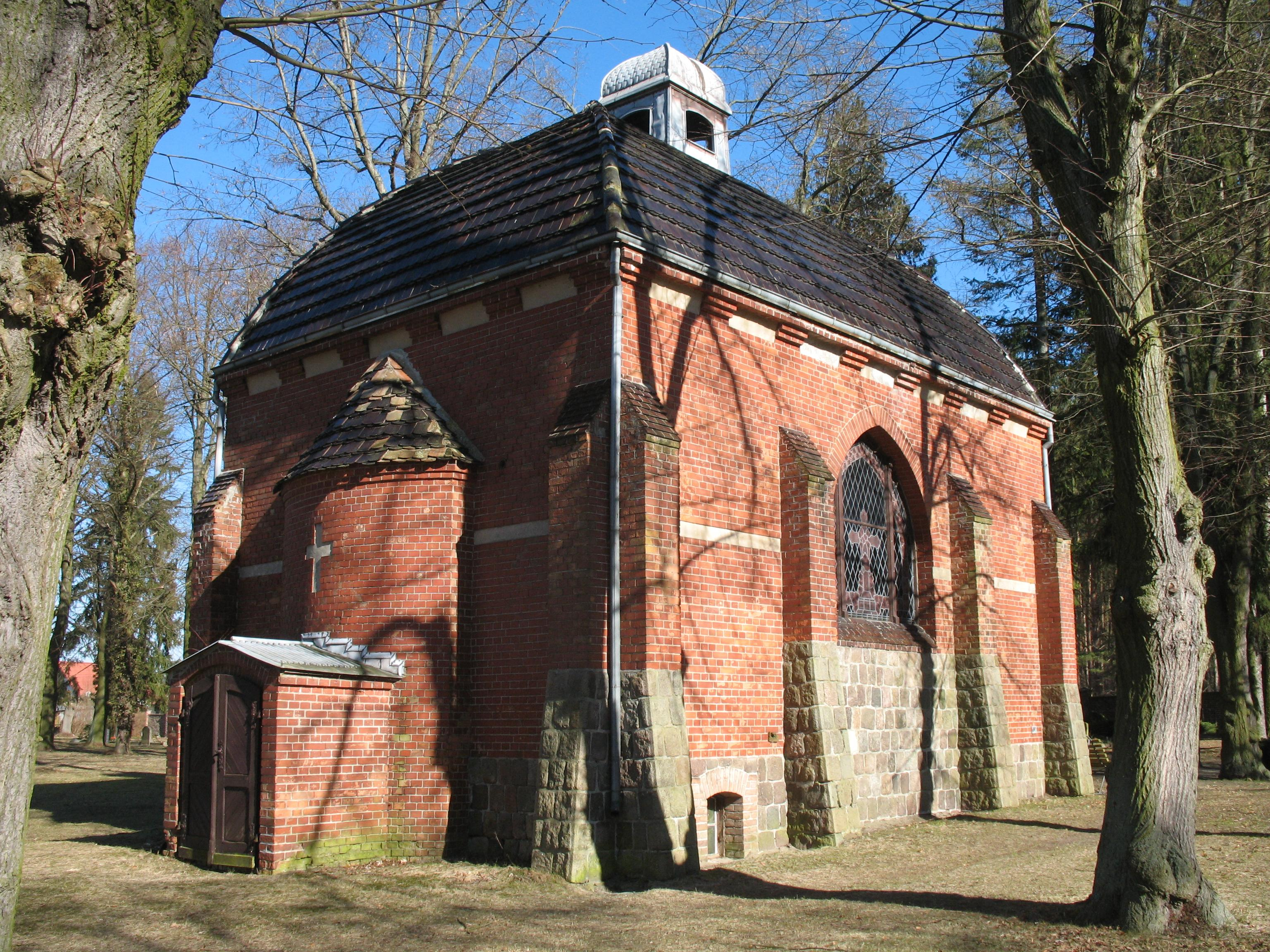 Chapel in Bad Freienwalde-Bralitz in Brandenburg, Germany